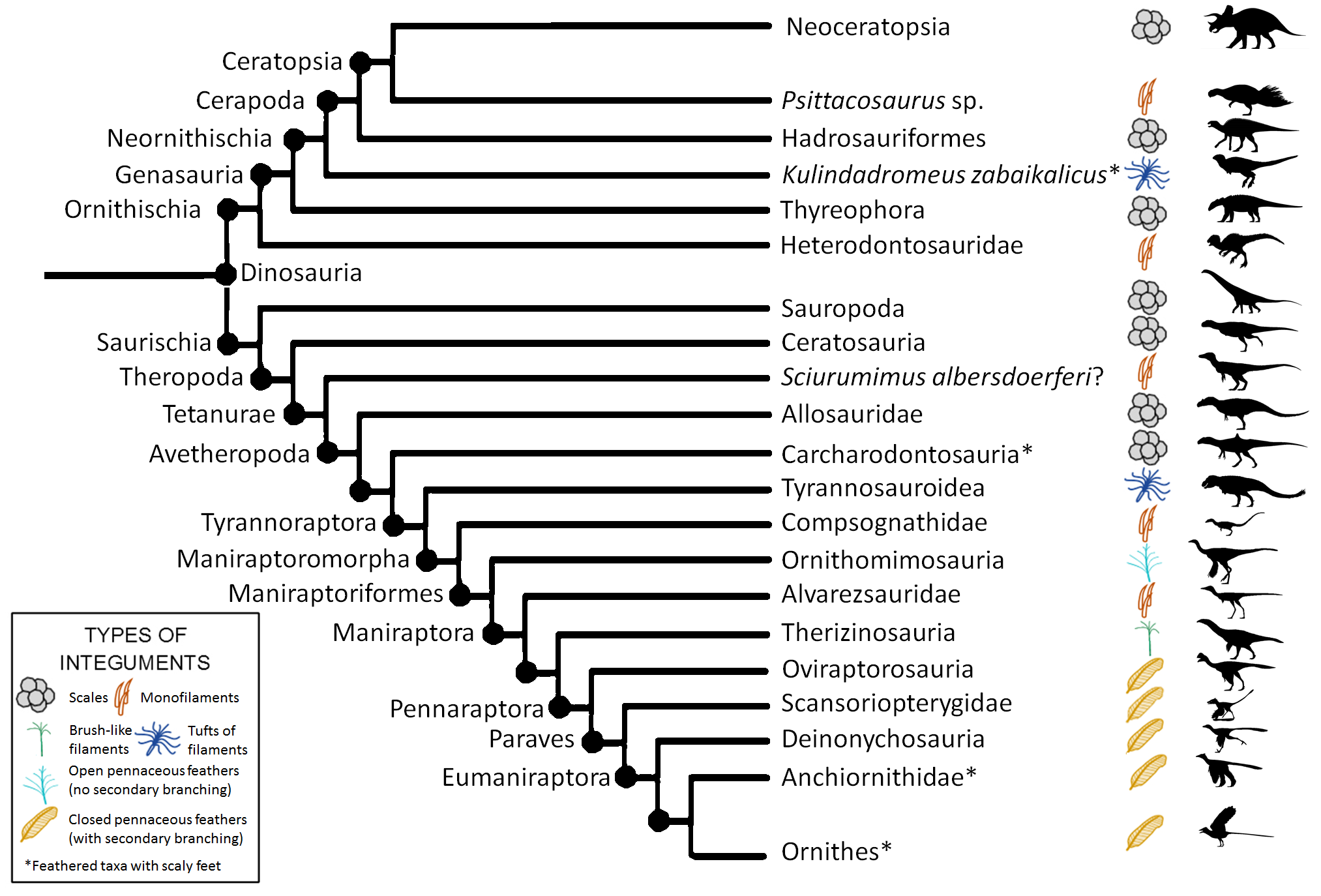 Cladogram of dinosaurs showing the kind of integument known from each group according to Benton et al. (2019).